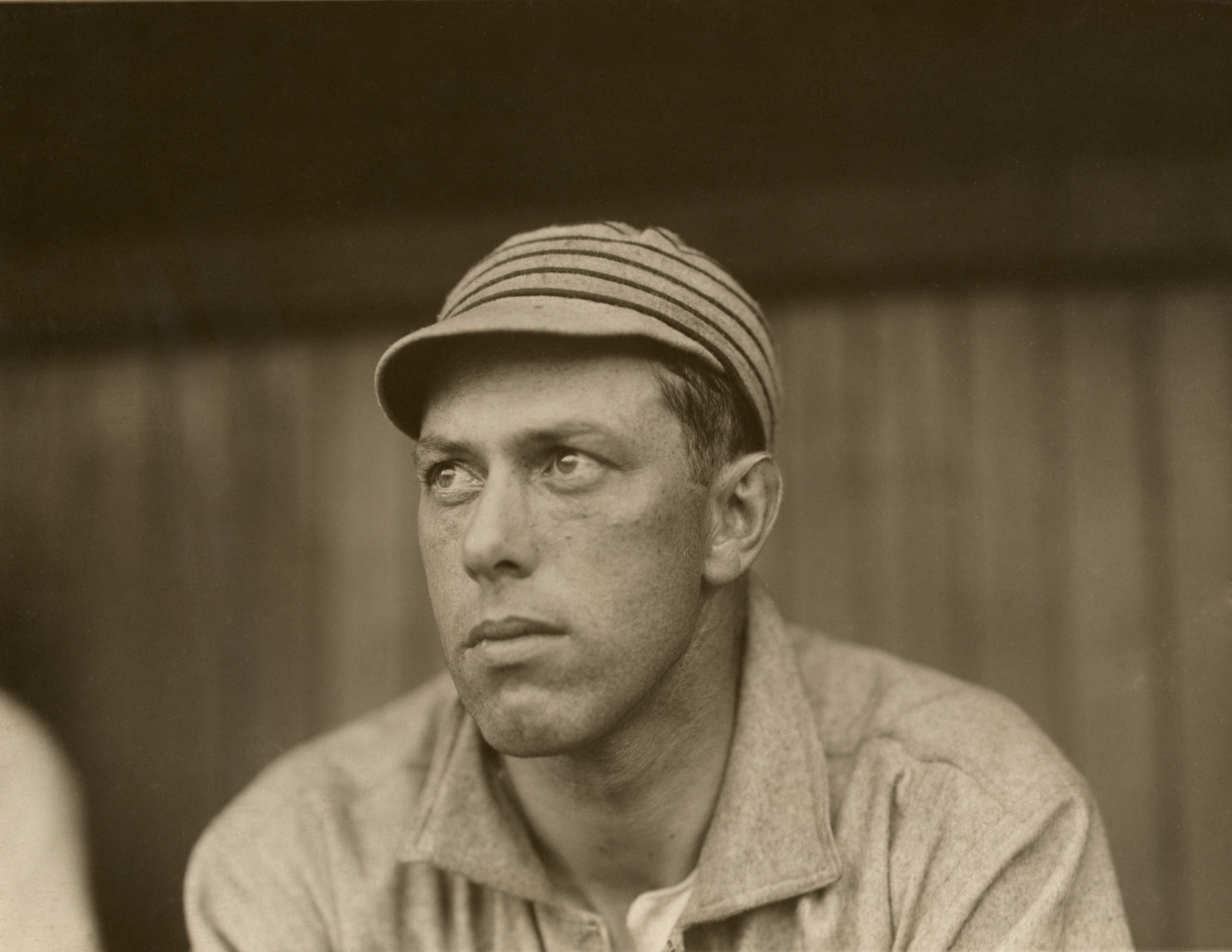 Photograph shows Jack (John Wesley) Coombs, pitcher for the Philadelphia Athletics, head-and-shoulders portrait, facing slightly left. Photo courtesy of the Library of Congress.